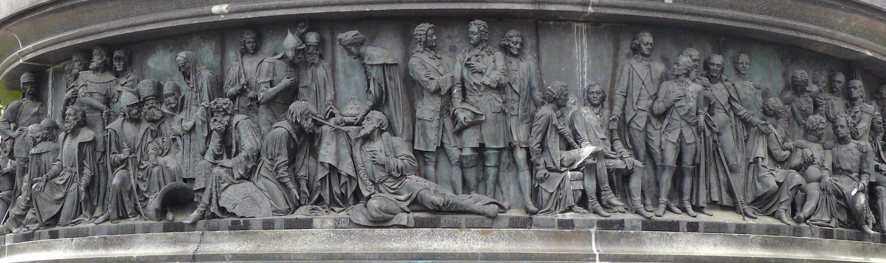 The group of military people and heros on the Monument «Millennium of Russia» in Veliky Novgorod